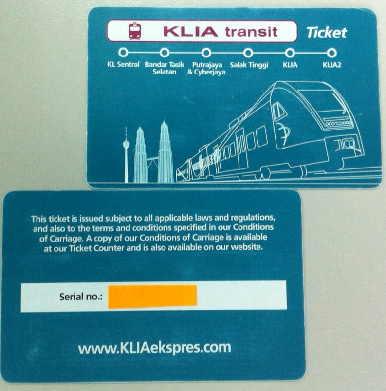 ERL KLIA Transit ticket front & back